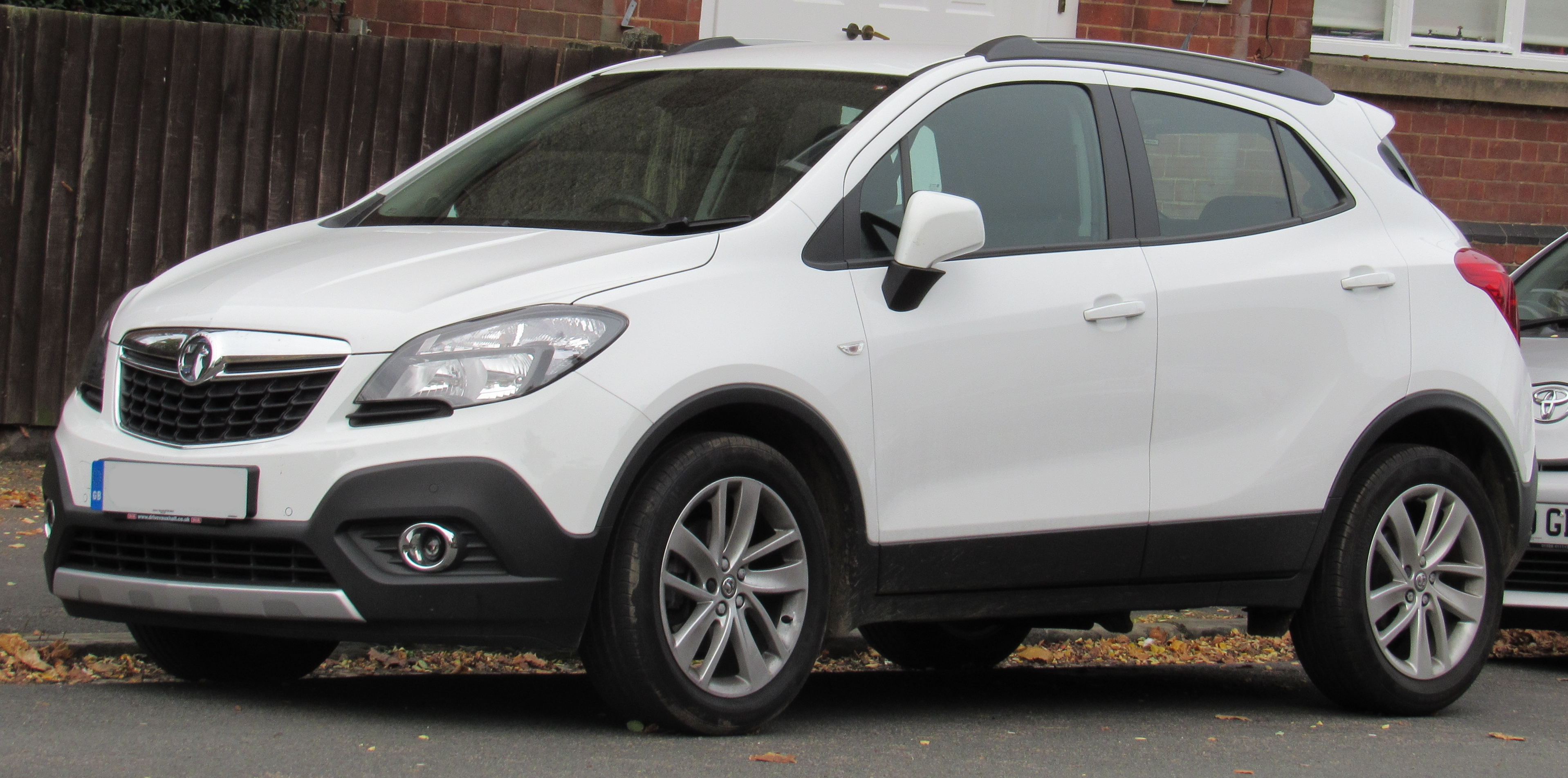 2016 Vauxhall Mokka Exclusiv Turbo 1.4 Taken in Leamington Spa